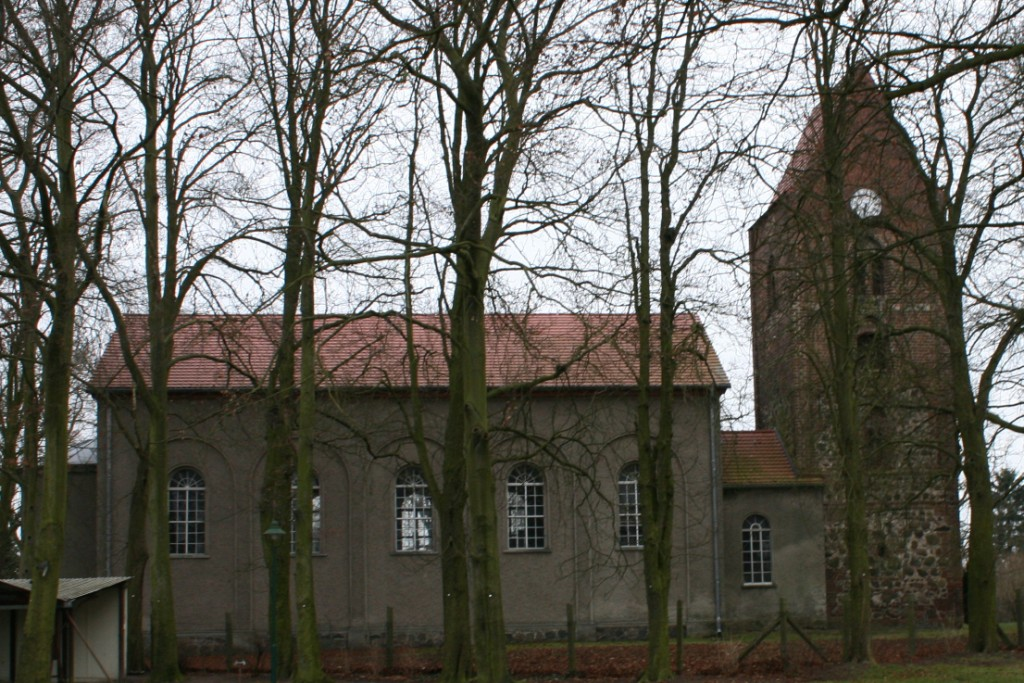 Church in Buschow in Brandenburg, Germany